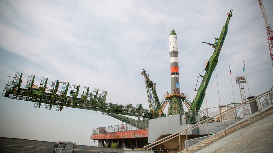 Russia’s Progress 73 cargo craft stands at its launch pad at the Baikonur Cosmodrome in Kazakhstan counting down to a Wednesday liftoff.